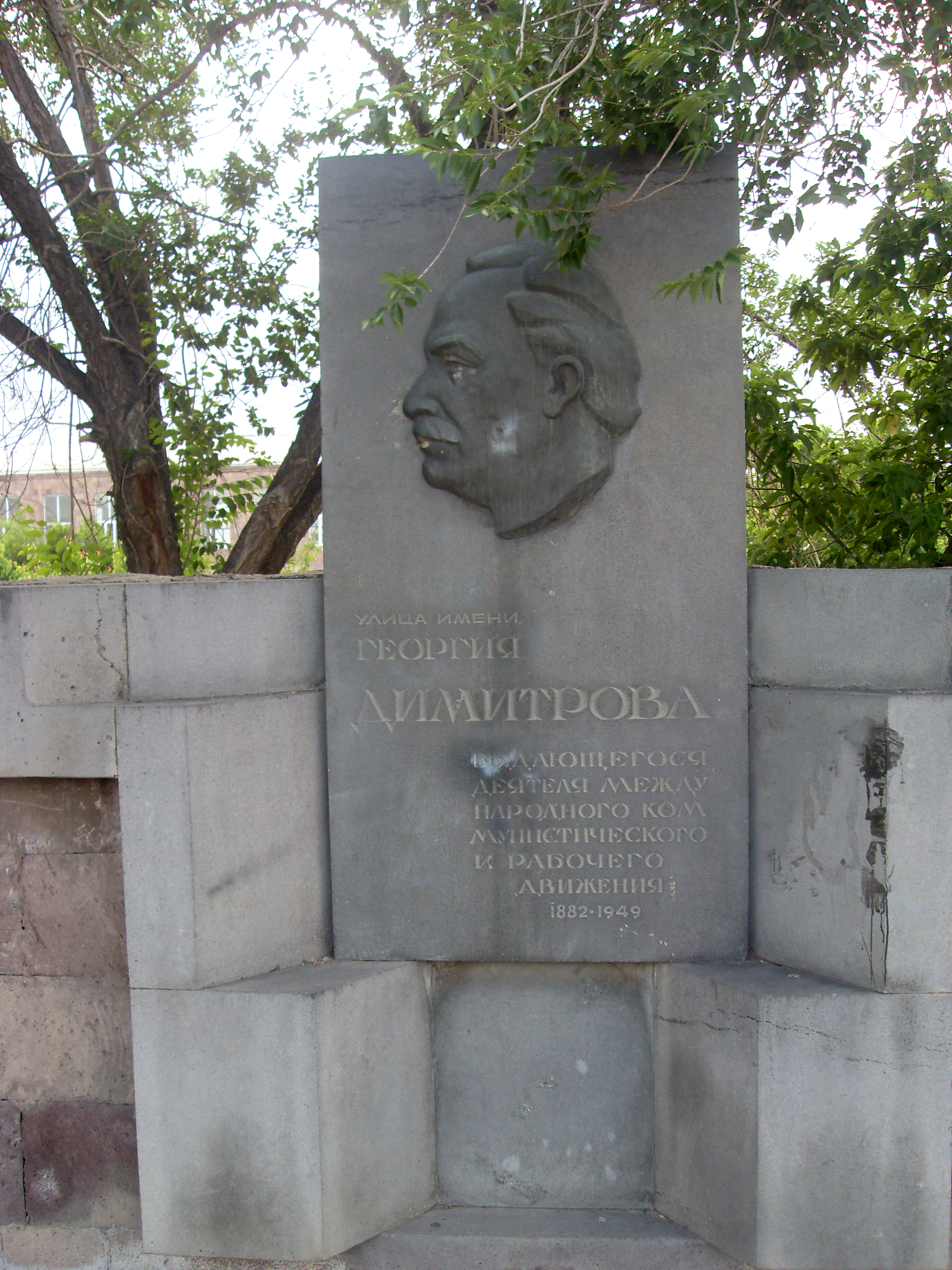 Azatamartikneri street, Yerevan